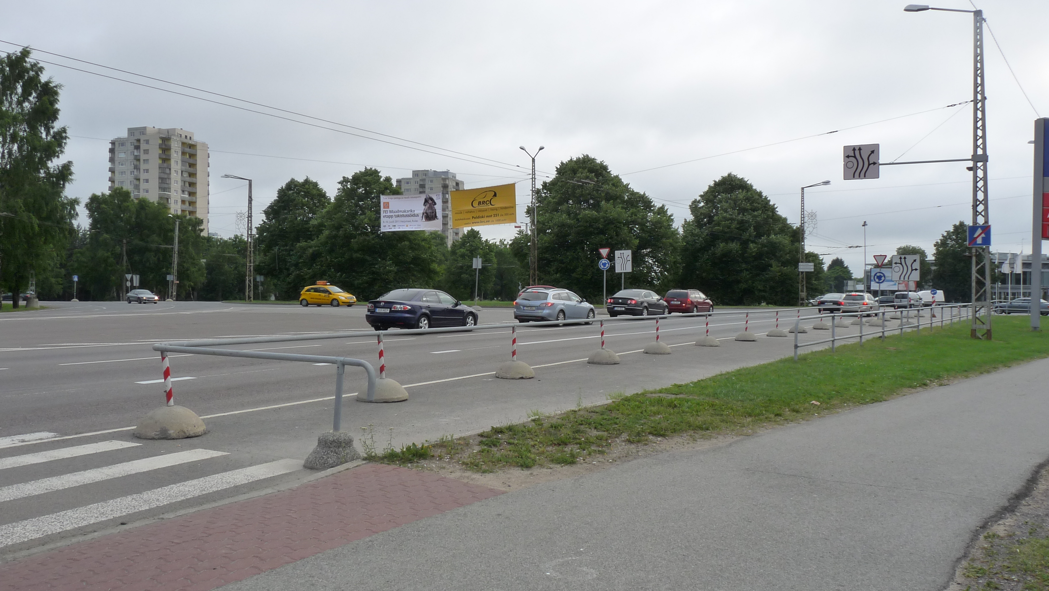 One of overloaded roundabout in Tallinn. Reconstruction plan is ready, but city has no money for bringing it to life. City promised start to consider this question after finishing of Ülemiste transport node.